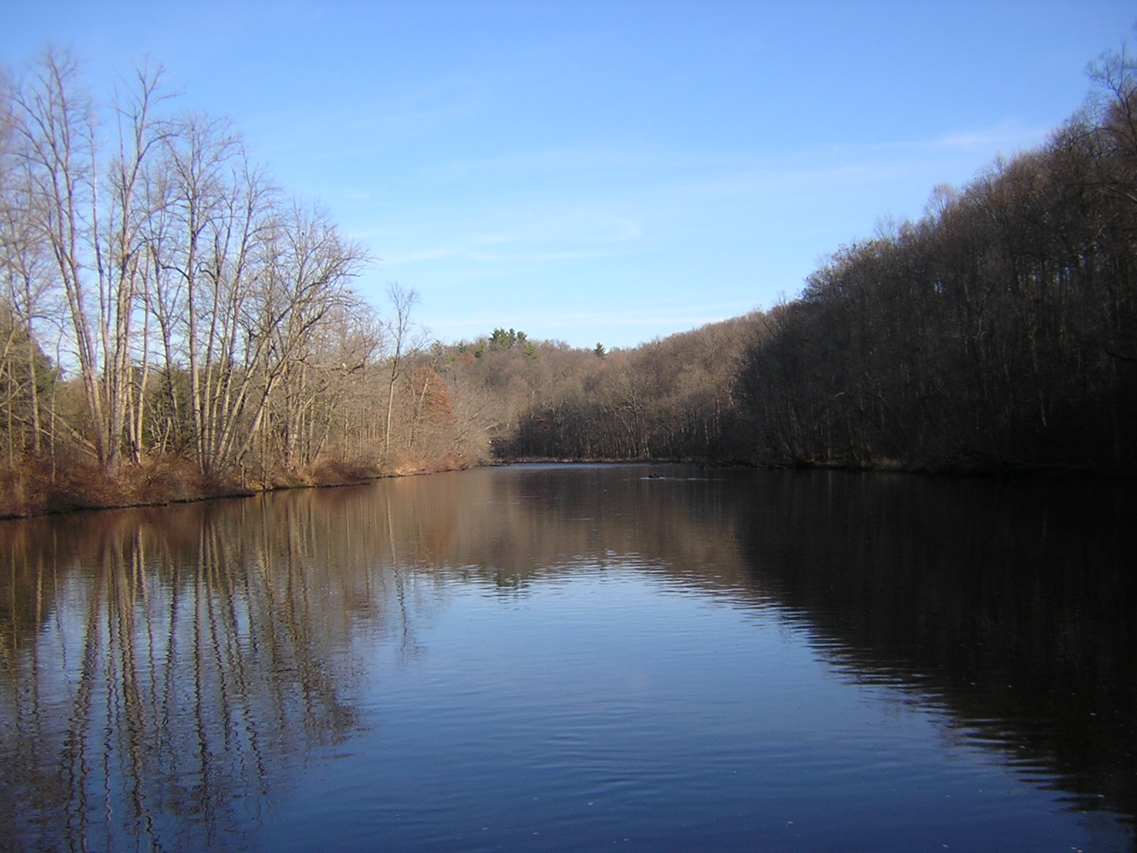 Flat River just upstream of Whites Bridge near Smyrna, Michigan